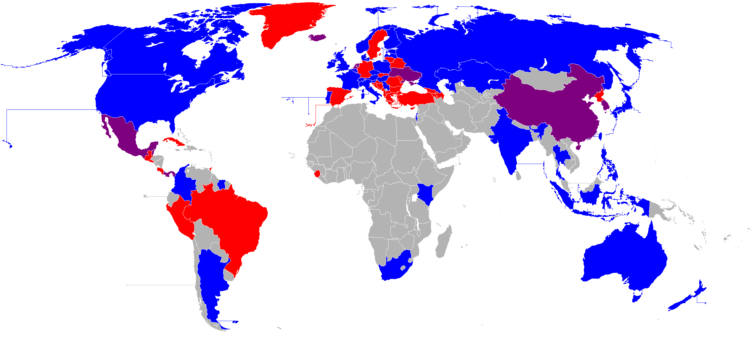 Red = illegal Blue = legal Purple = certain restrictions/grey area/unclear